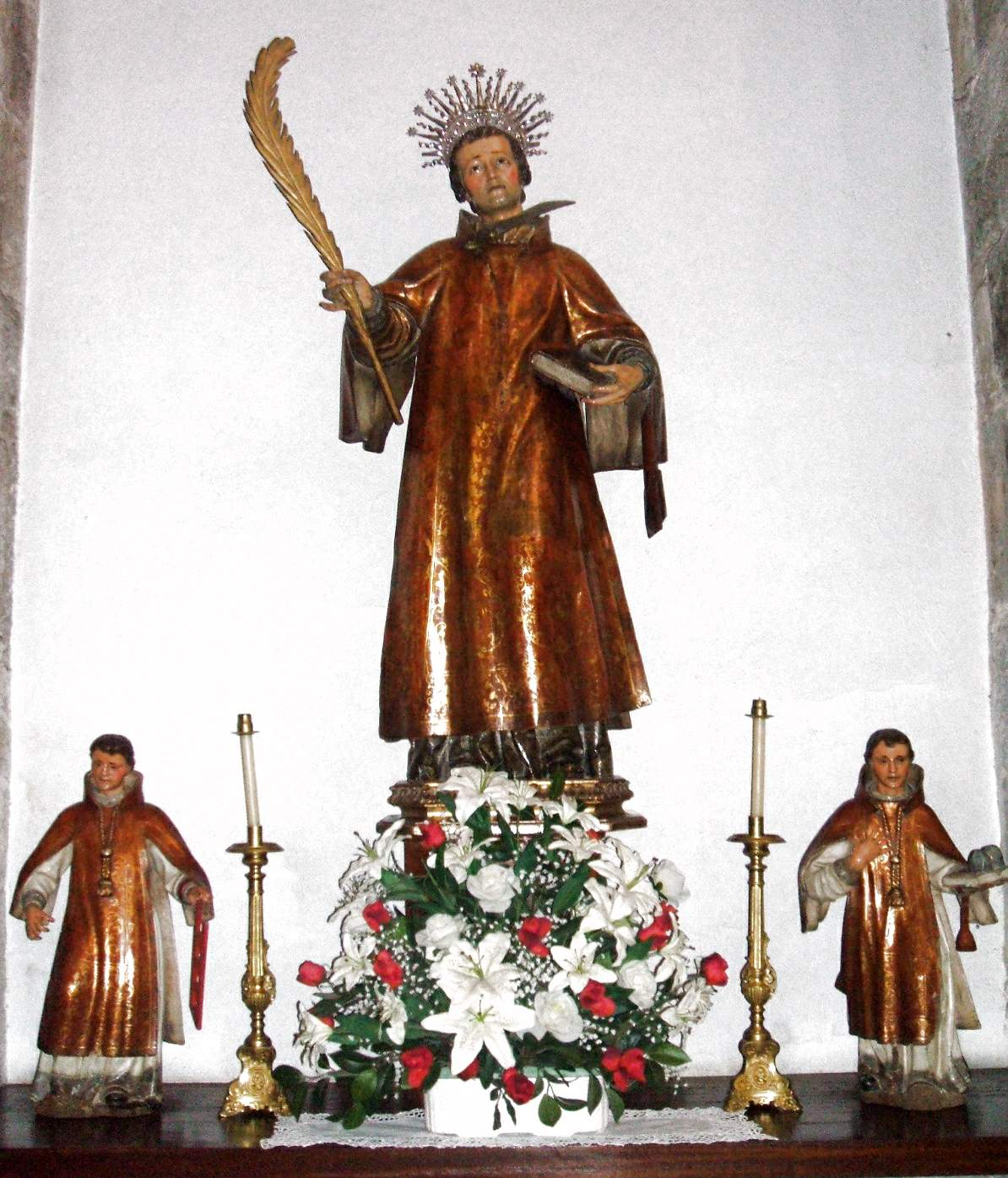 Talla barroca de San Antolín, Basílica de Santa María de la Asunción, Lequeitio (Vizcaya, Euskadi, España)